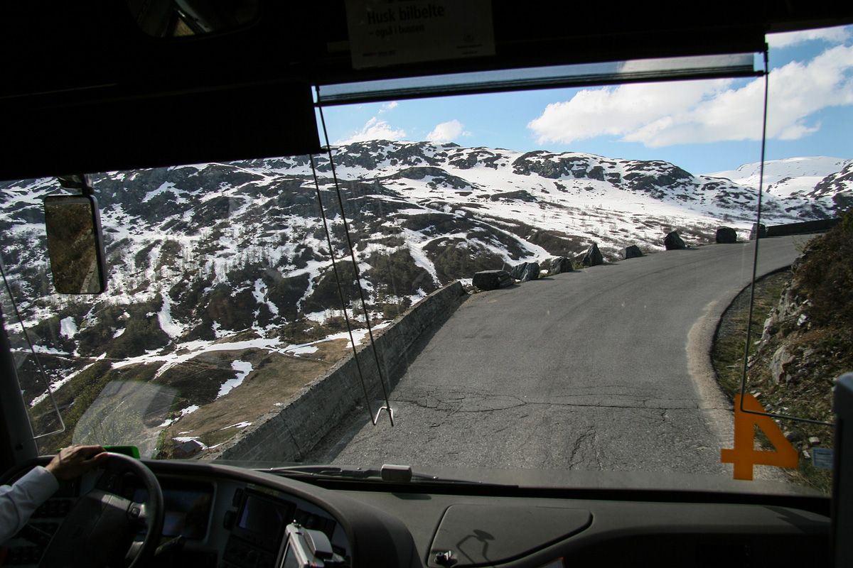 With Haukeliekspressen up the old Austmannalia road.